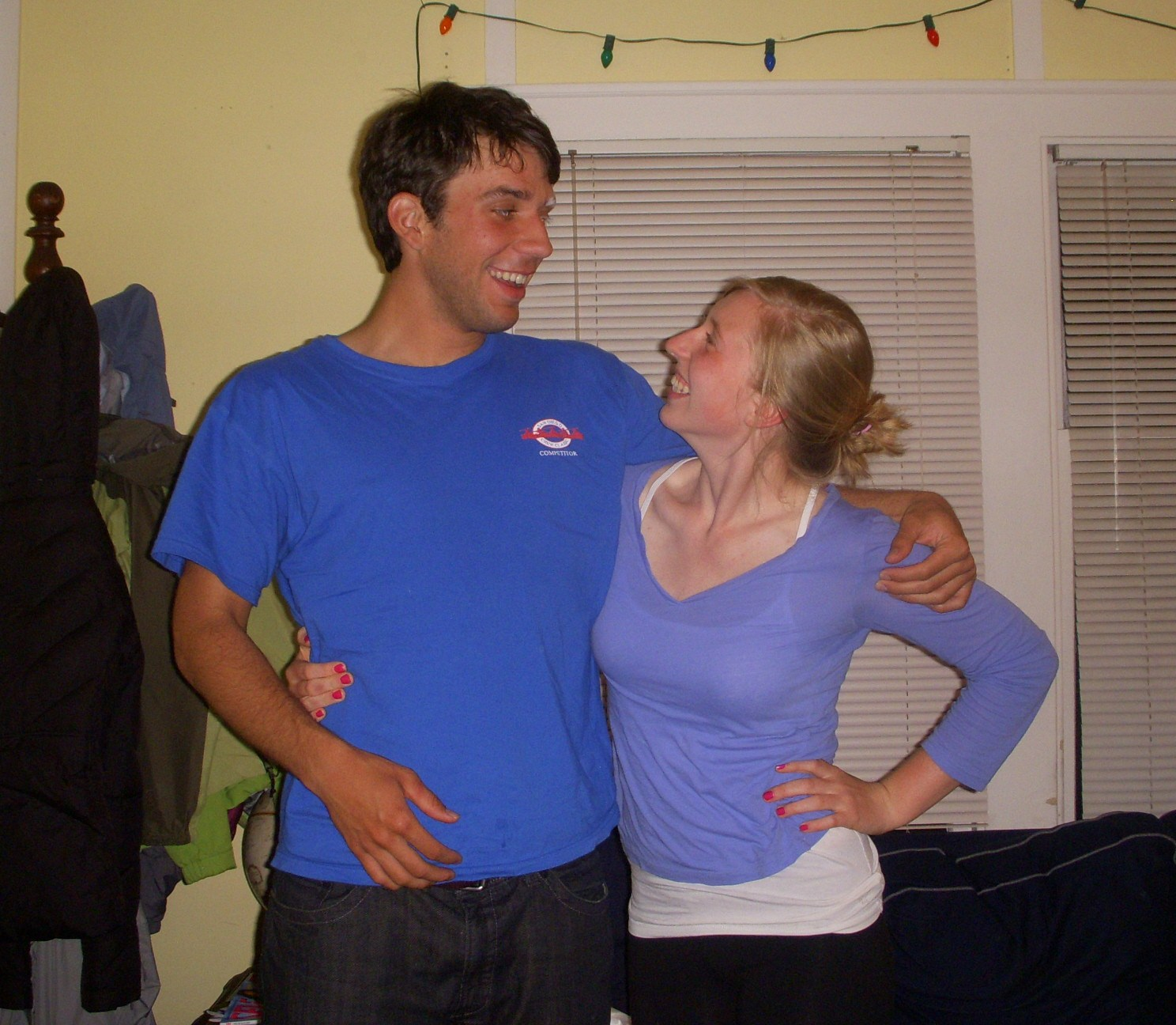 Demonstration of the Christian Side Hug by man and woman.